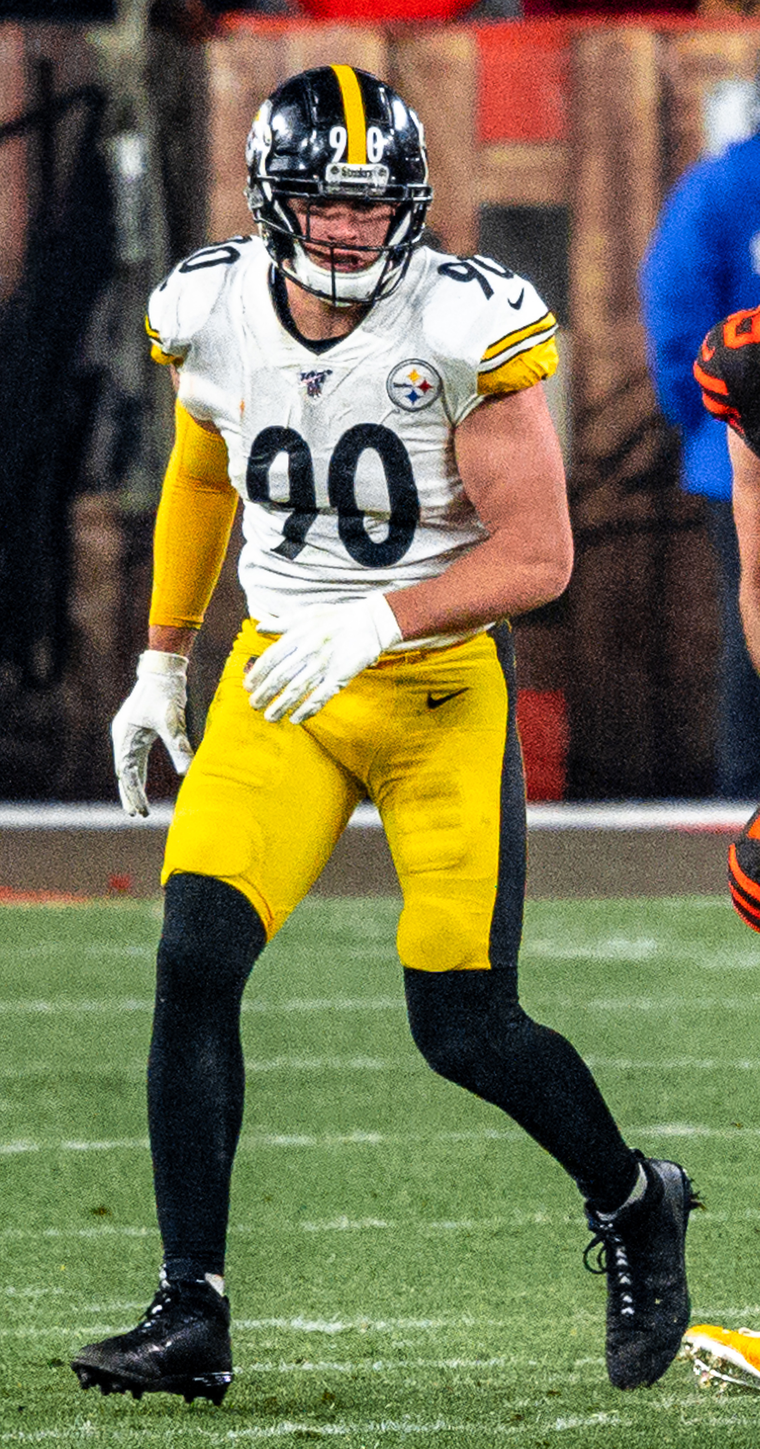 Steelers vs Browns 2019